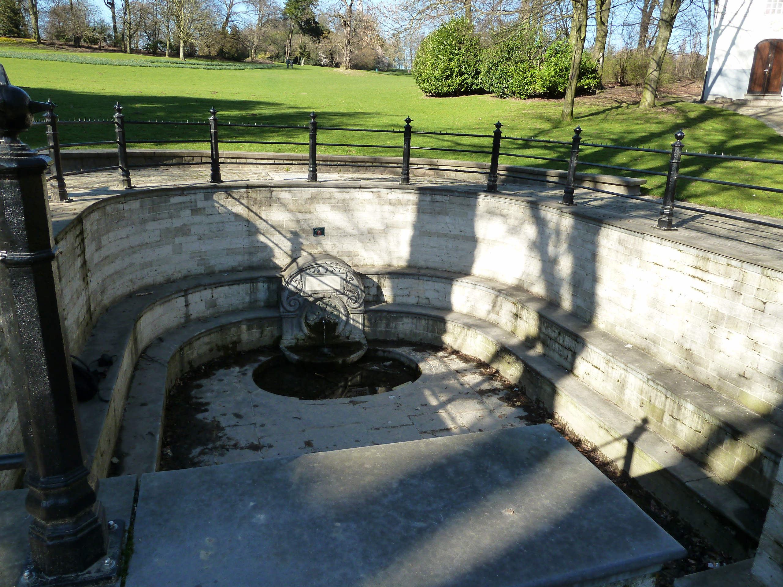 Sint-Annabron in Laken, Belgium